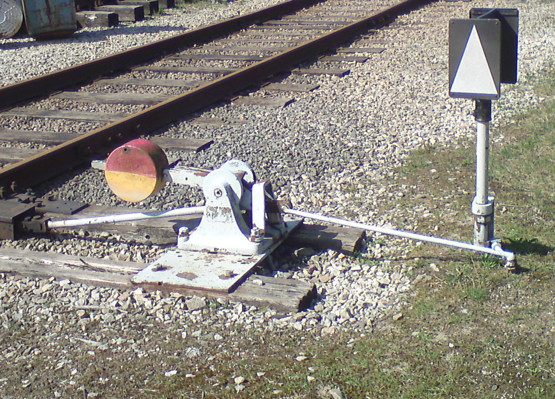 Railway point indicator